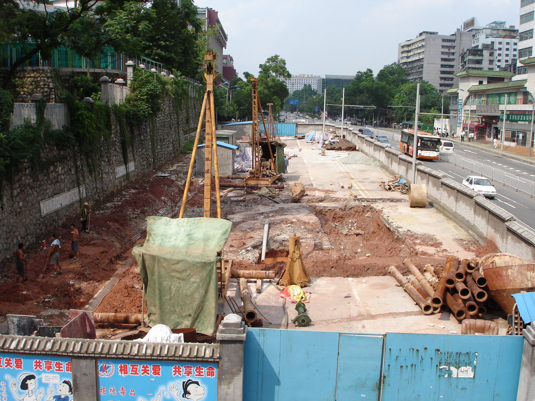 Construction site of Huanghuagang Station, Guangzhou Metro Line 6